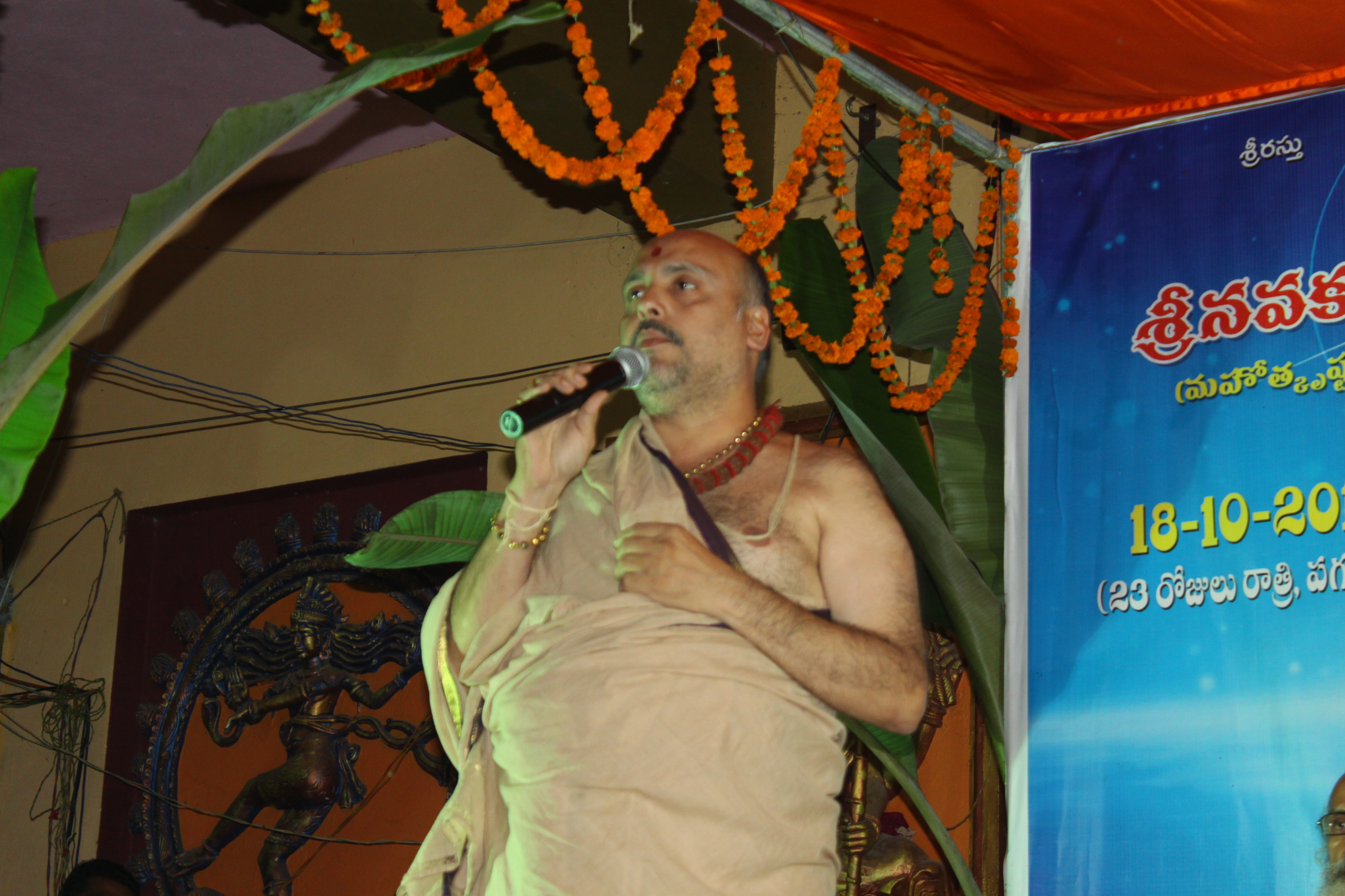 Garimella venkata ramana sastry speaking at ahoratra yagam